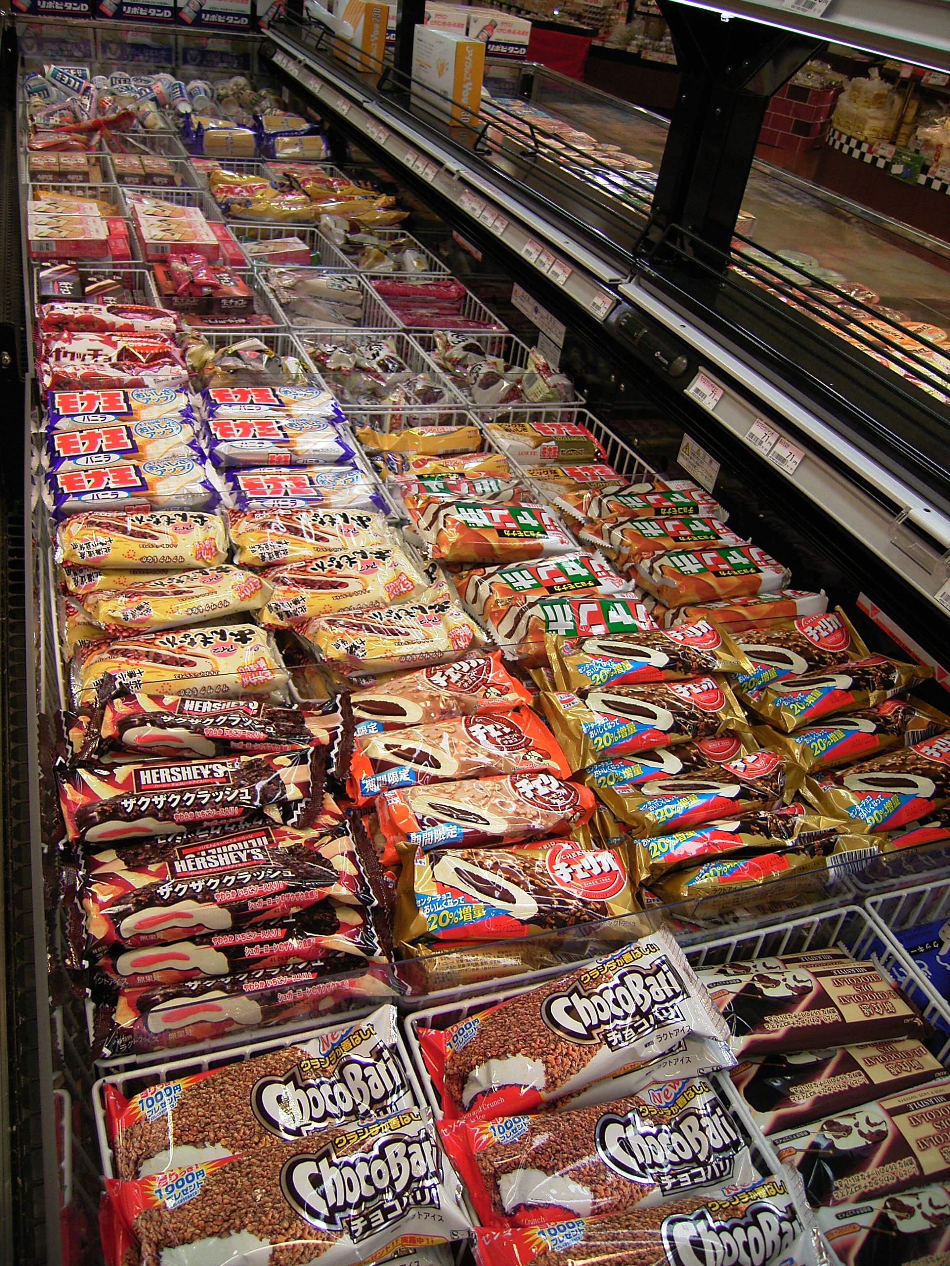 ice candy